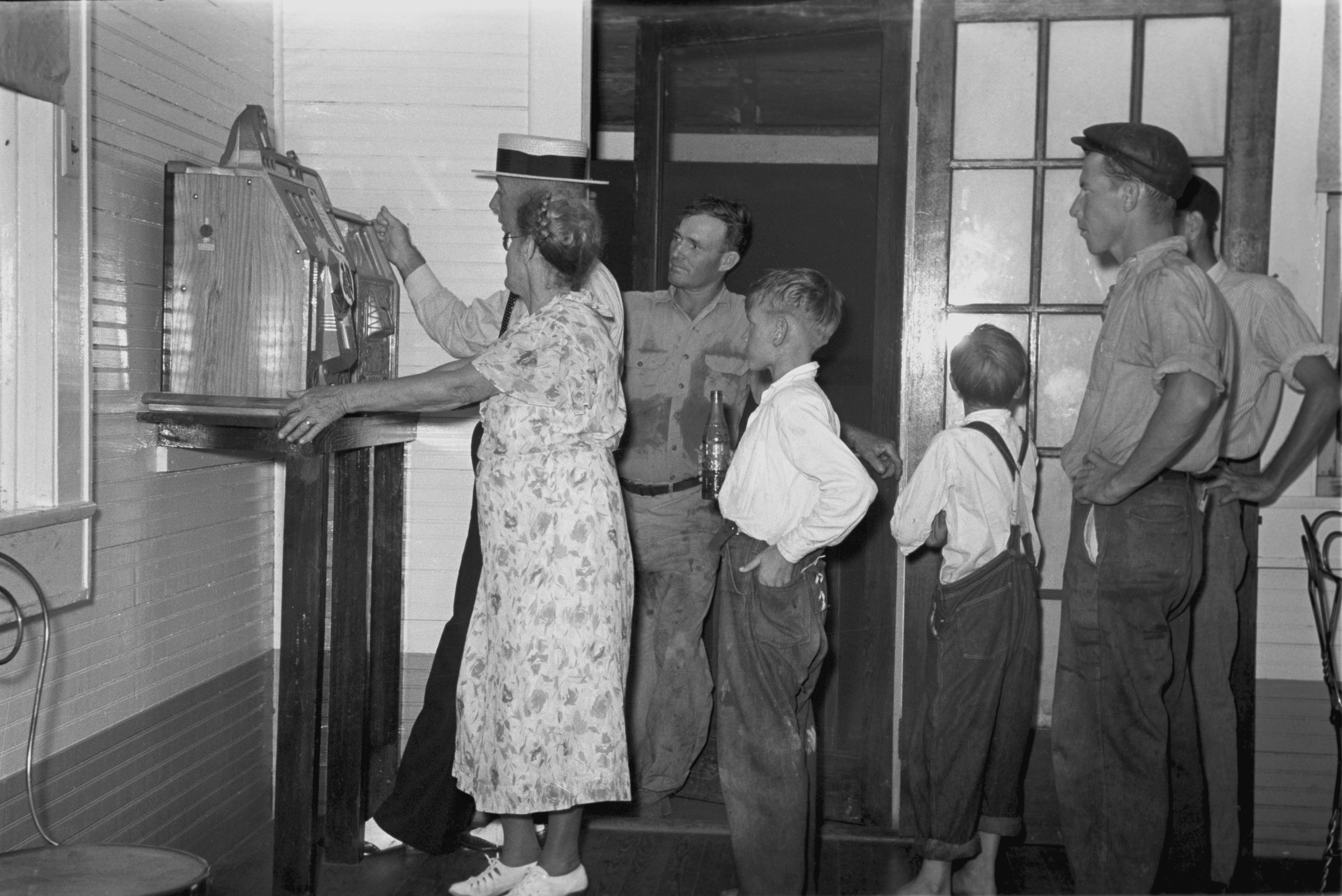 People watching slot machine being played, Pilottown, Louisiana, 1938.